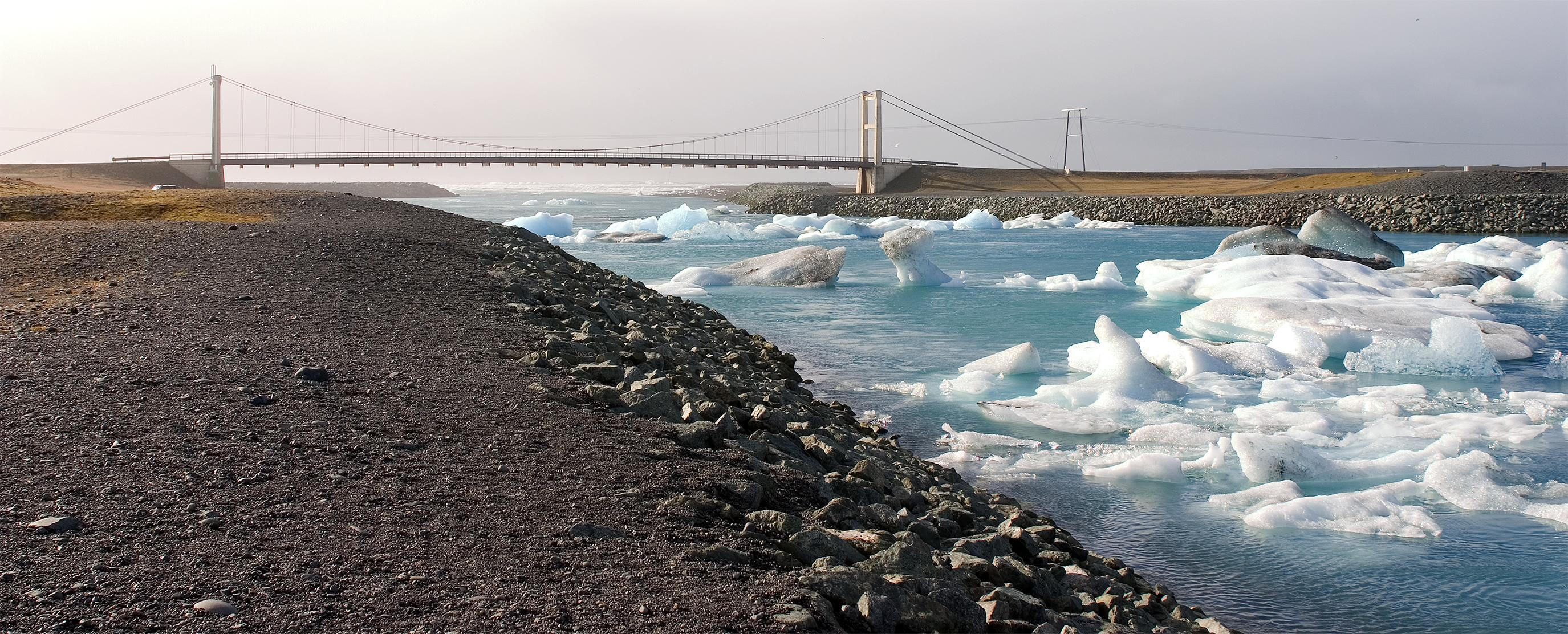 This is the bridge that carries the Ring Road (Highway 1) over the outlet of Jökulsárlón, a lagoon that carries icebergs from the Vatnajökull glacier to the Atlantic Ocean, in southeastern Iceland. View Large On Black